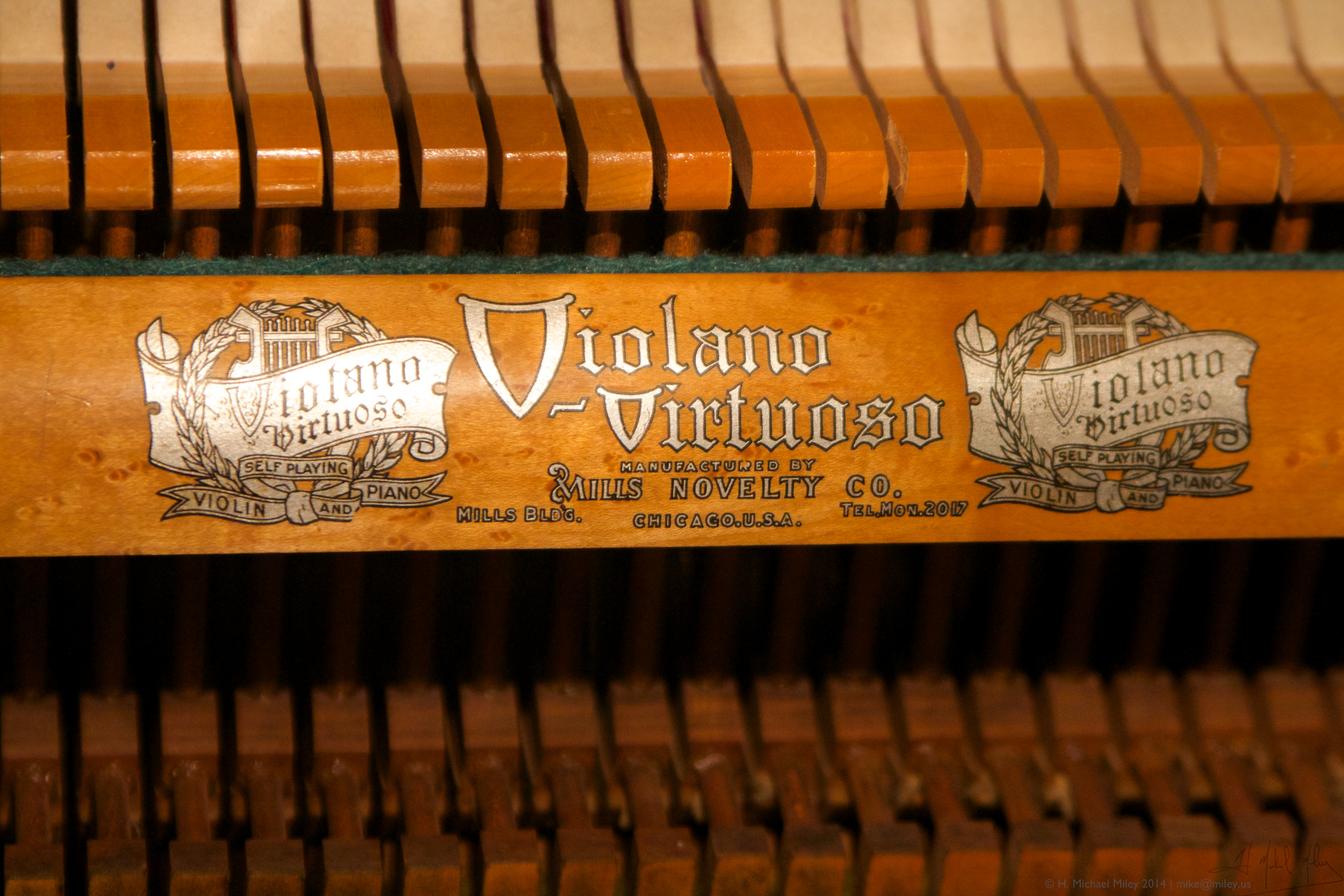 the first electrically operated, self-playing violin and piano. Made by the Mills Novelty Co. in Chicago IL. c 1912 Serial number 2928 The Mills Building was at 125-127 West Randolph Street, Chicago which is now the site of the Thompson Center. Need to contact them by phone? Call Mon 2017 (monroe 2017)